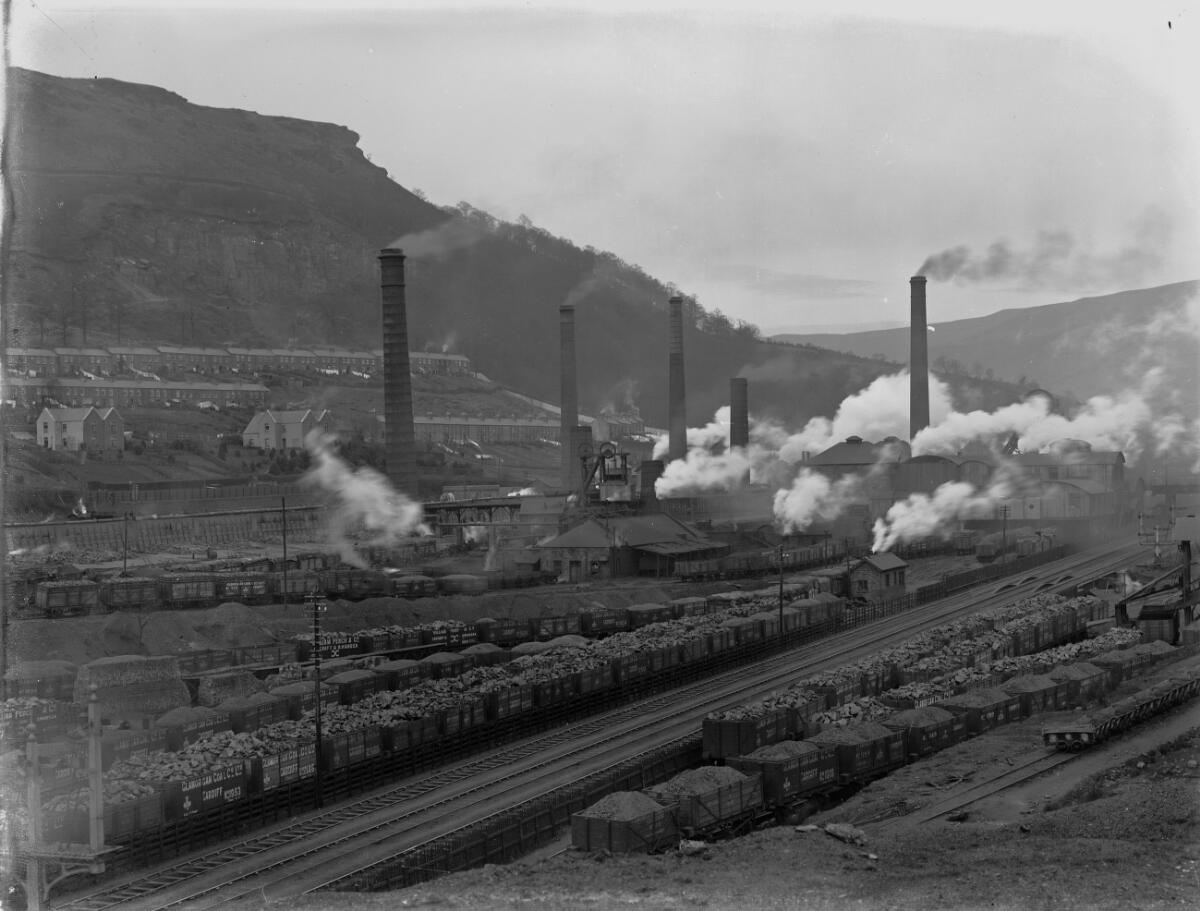 Photograph from the Martin Ridley Collection, which documents the towns and villages of South Wales c.1900-1910